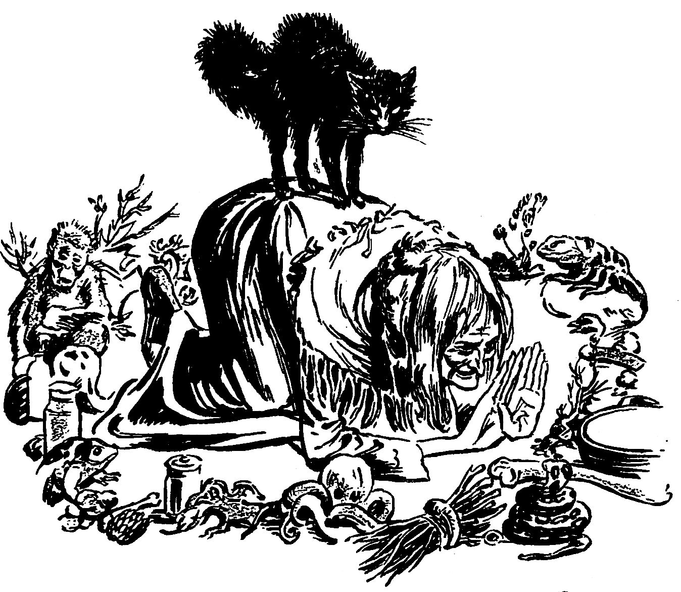 Illustration of a witch and her cat. Internal Illustration from the pulp magazine Weird Tales (September 1941, vol. 36, no. 1).